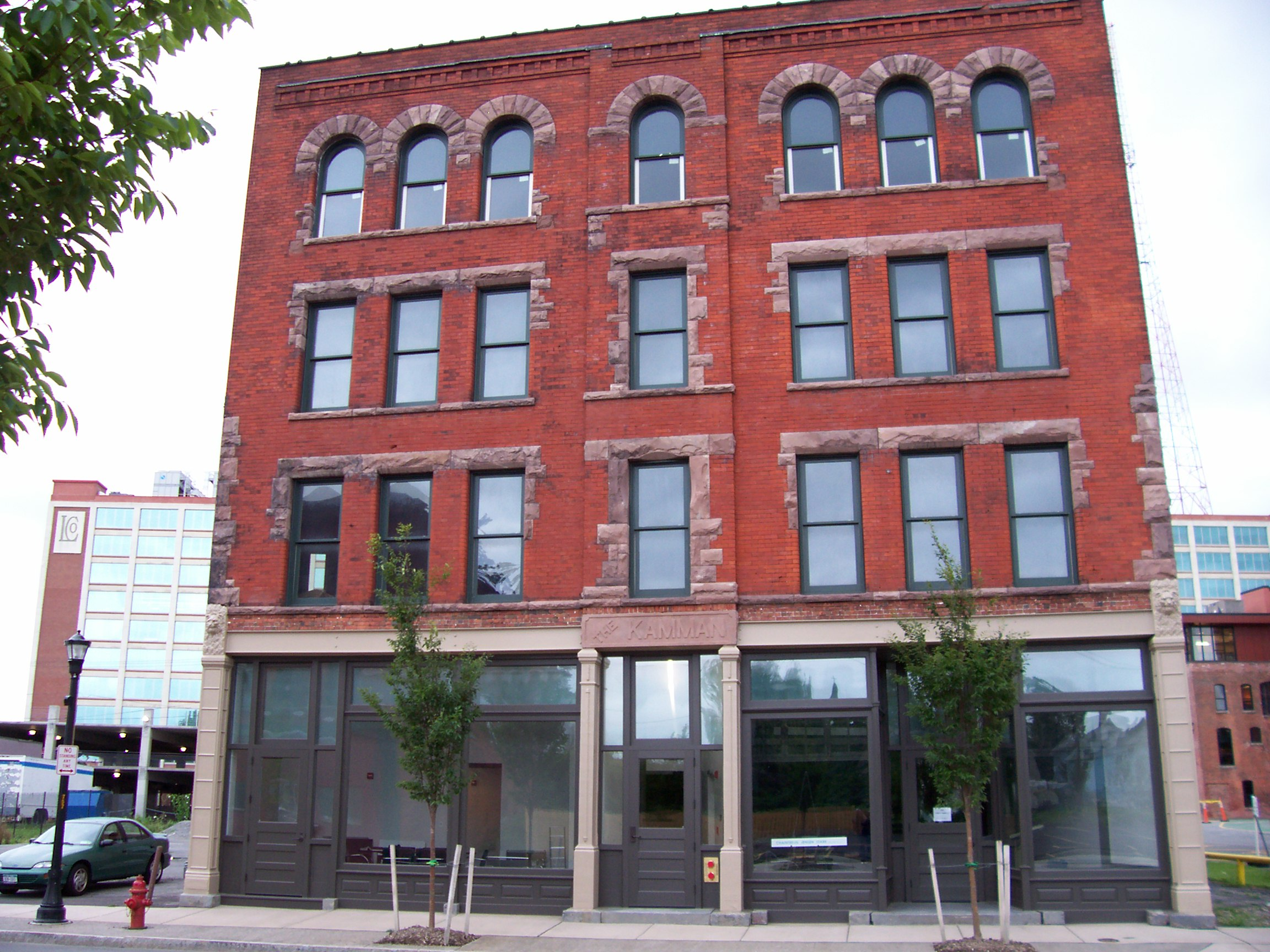 The Kamman building in Buffalo NY. As it appears today, after restorations